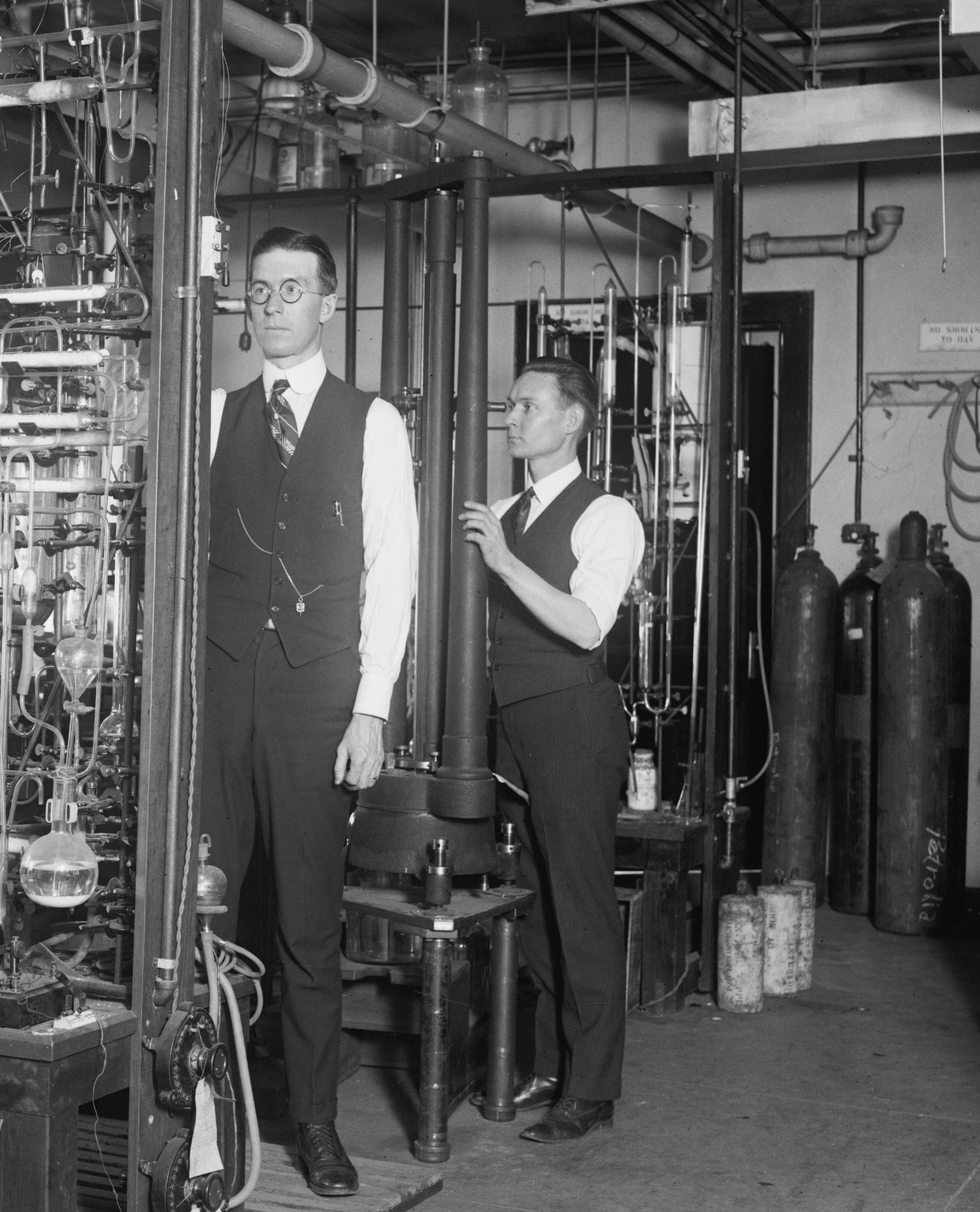 Title: Helium gas storing, 3/8/23 Abstract/medium: 1 negative : glass ; 5 x 7 in. or smaller